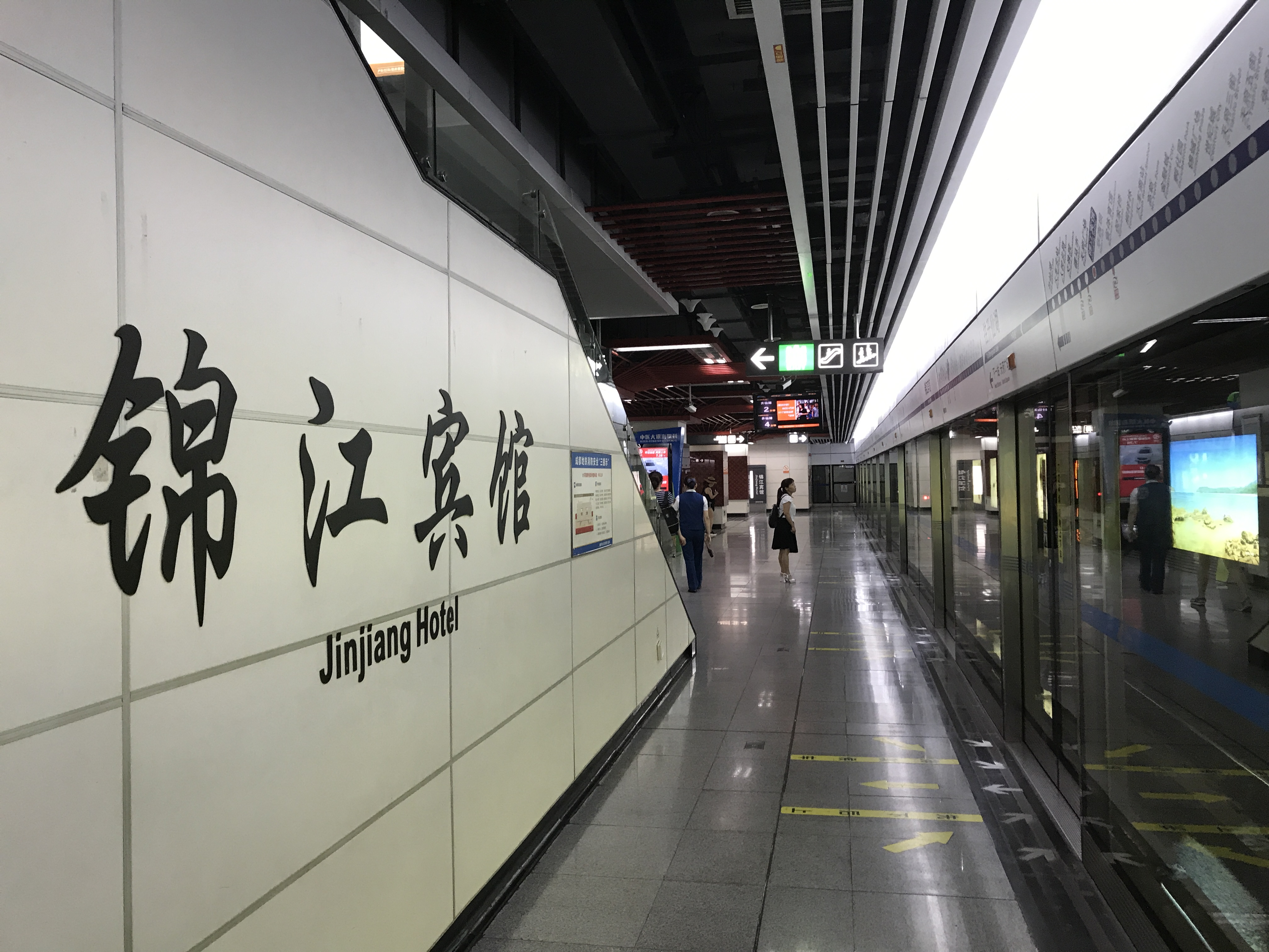 Platform of Jinjiang Hotel Station, Chengdu Metro